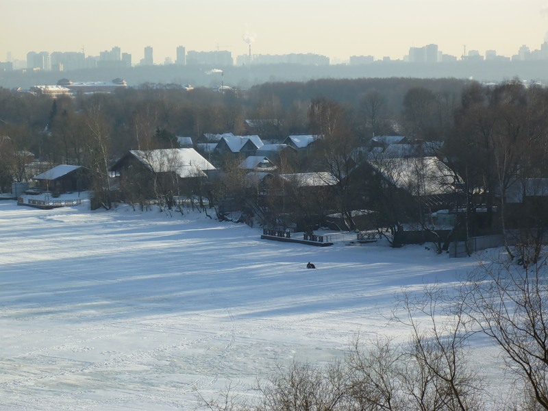 Rechnik settlement in Moscow.